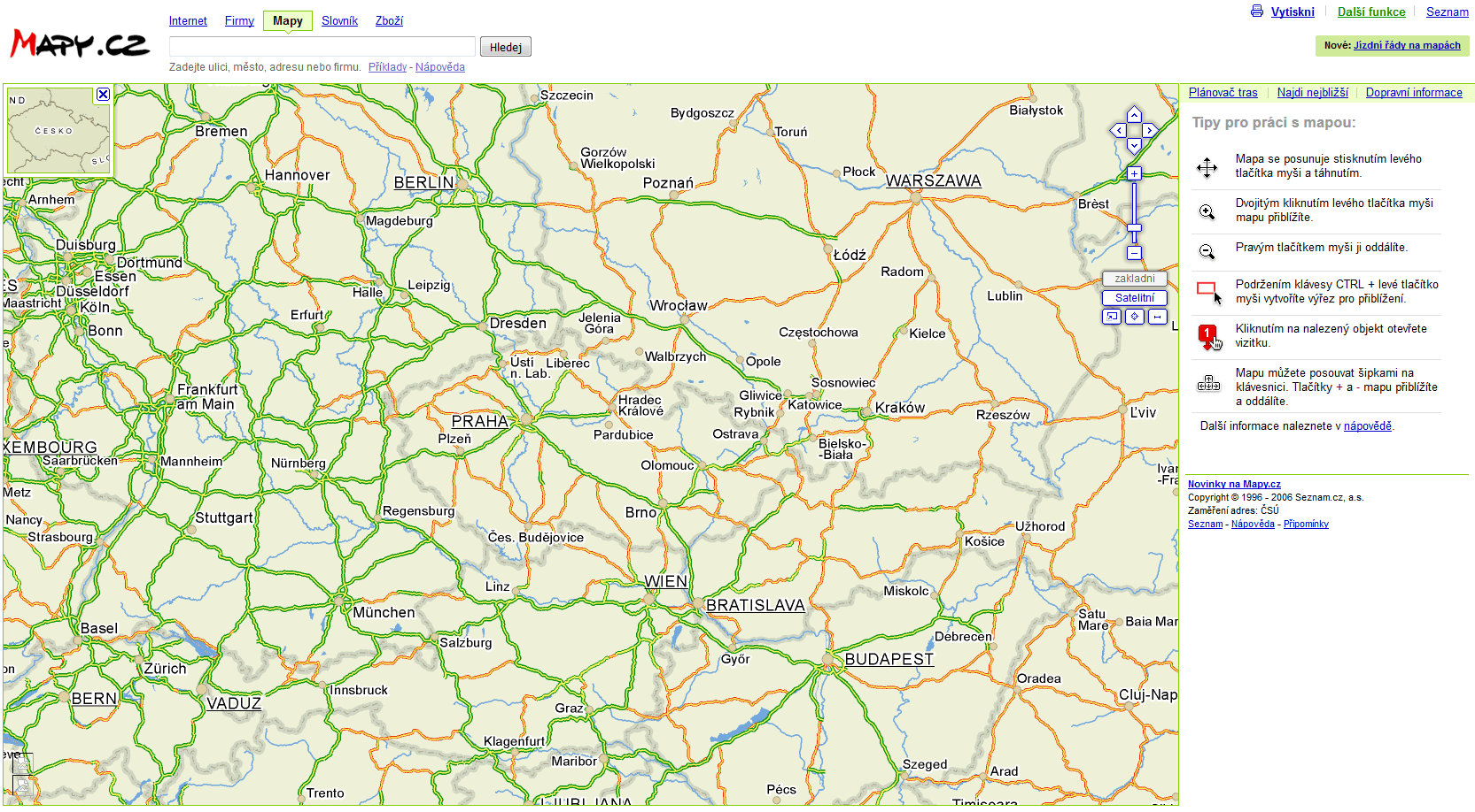 Mapy.cz in 2016 year.